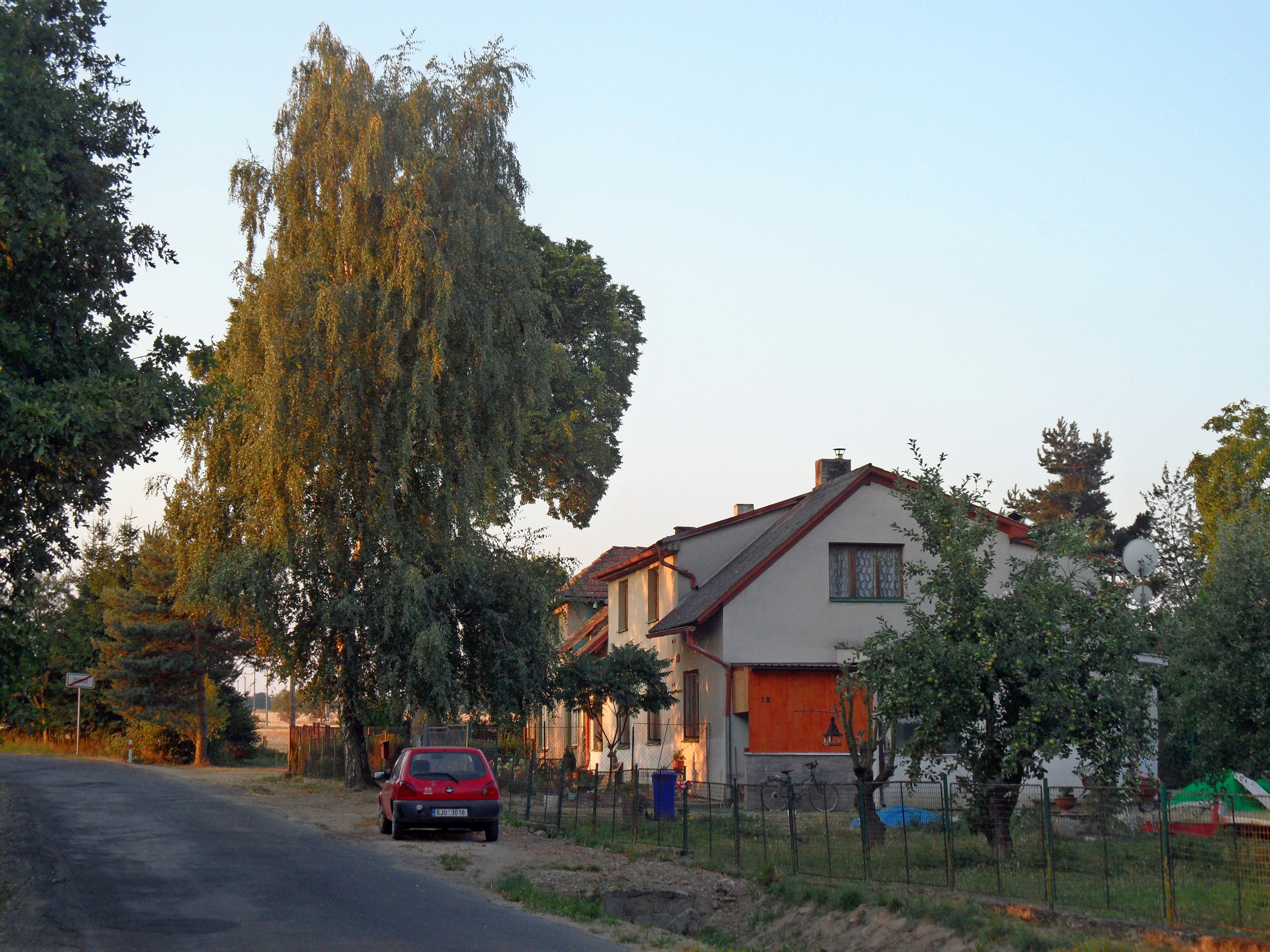 Ždánice (Vilémov) C. House Under Tree (Towards Dálčice). Havlíčkův Brod District, the Czech Republic.